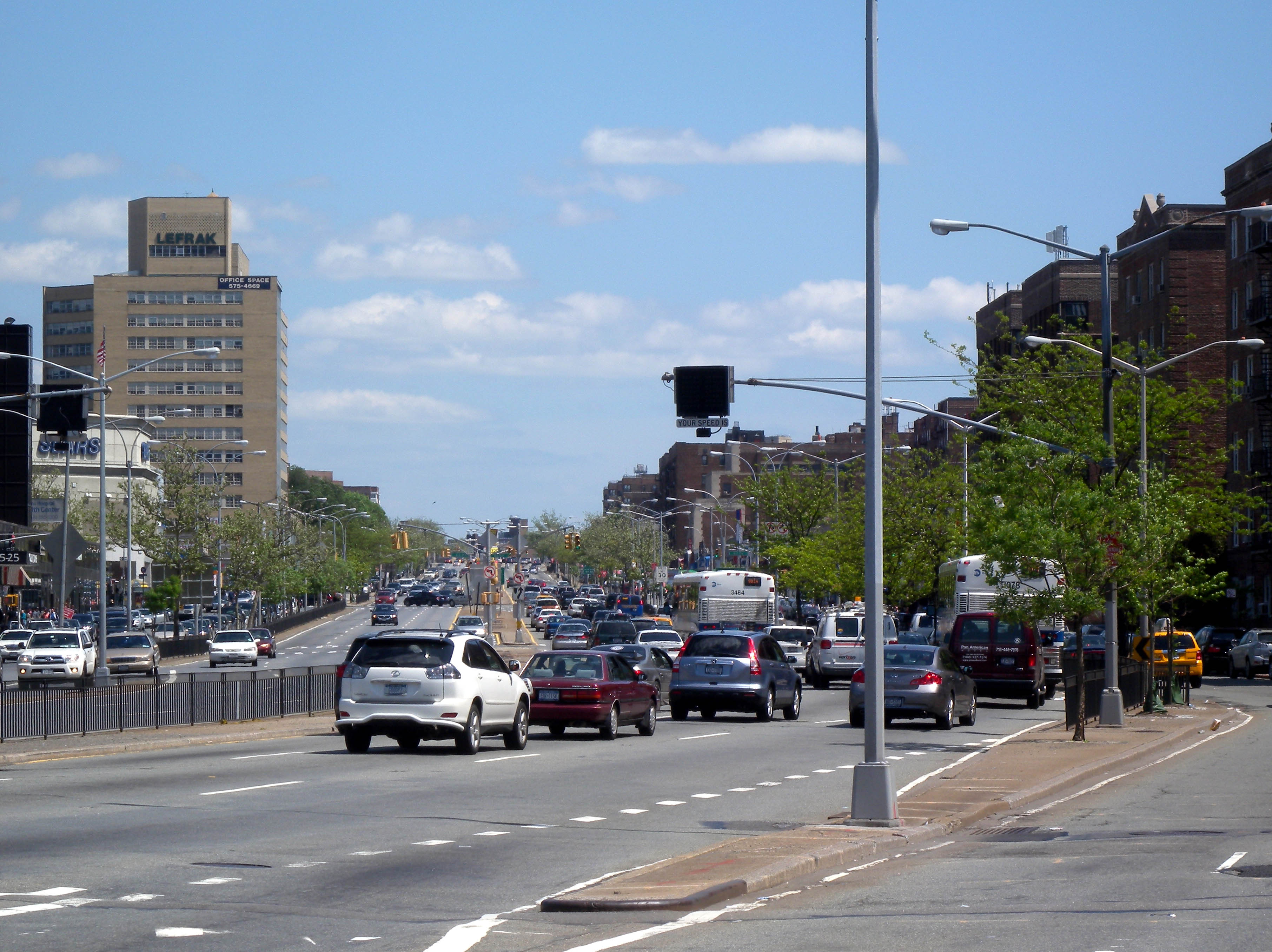 Looking east, full zoom, on Queens Boulevard past 62nd Avenue in Elmhurst on a sunny midday.